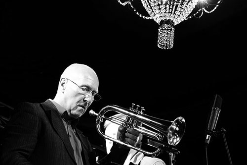 Uli Beckerhoff at Aarhus Jazz festival 2015